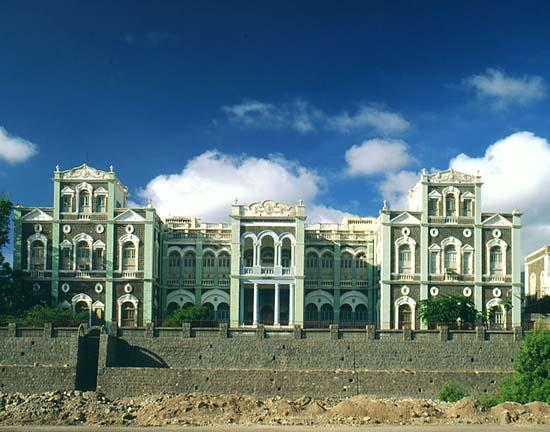 National Museum of Yemen, Aden Branch